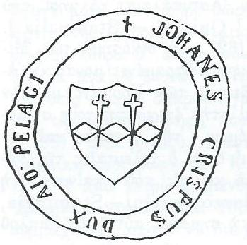 seal of Giovanni IV Crispo duke of Naxos, 1523